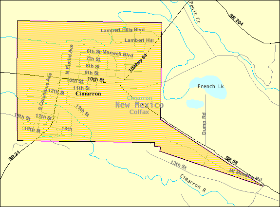 U.S. Census 2000 reference map for Cimarron